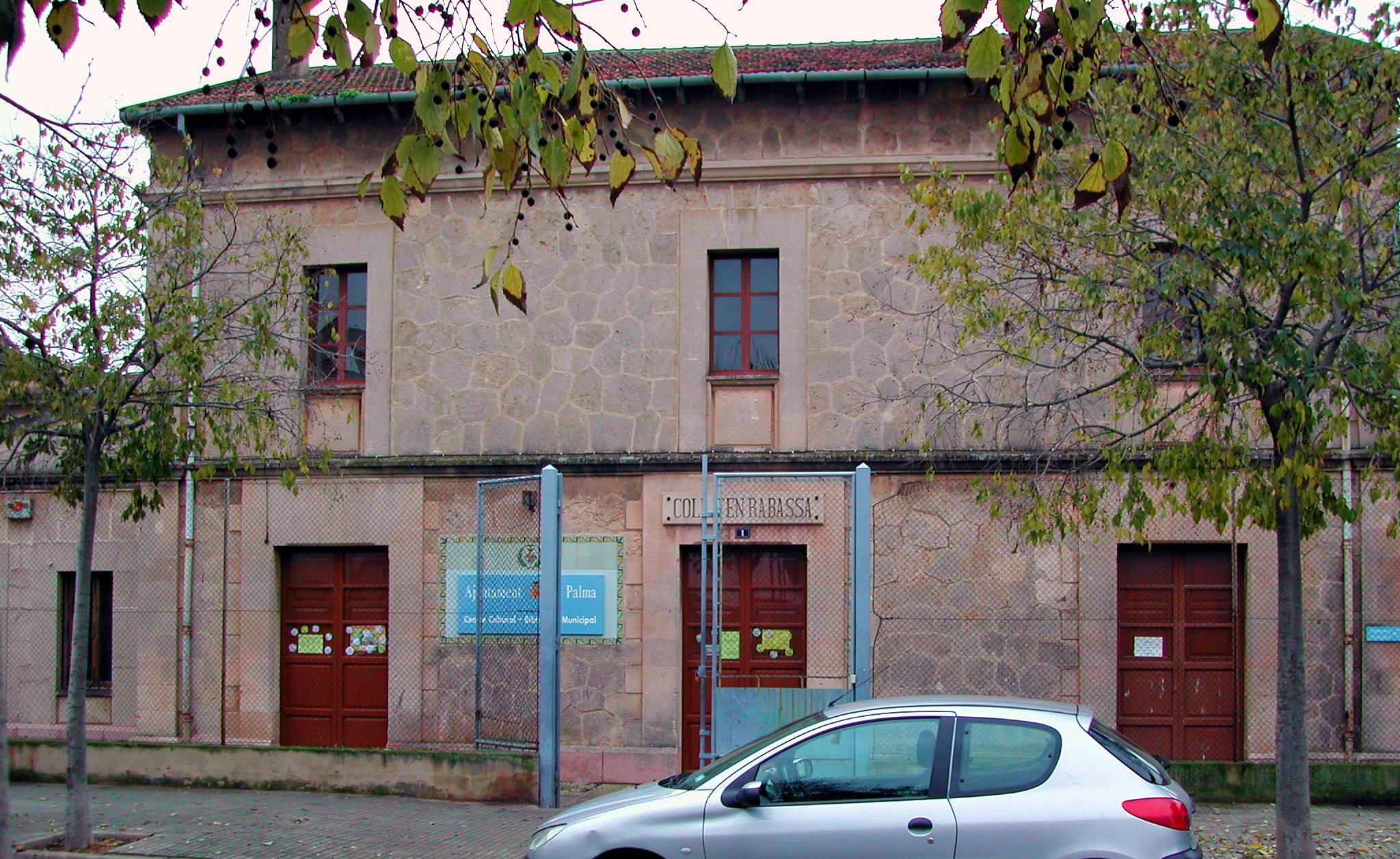 Old Coll d'en Rebassa station. Belonged to the desapeared railway between Palma and Santanyi, nowadays converted in library.